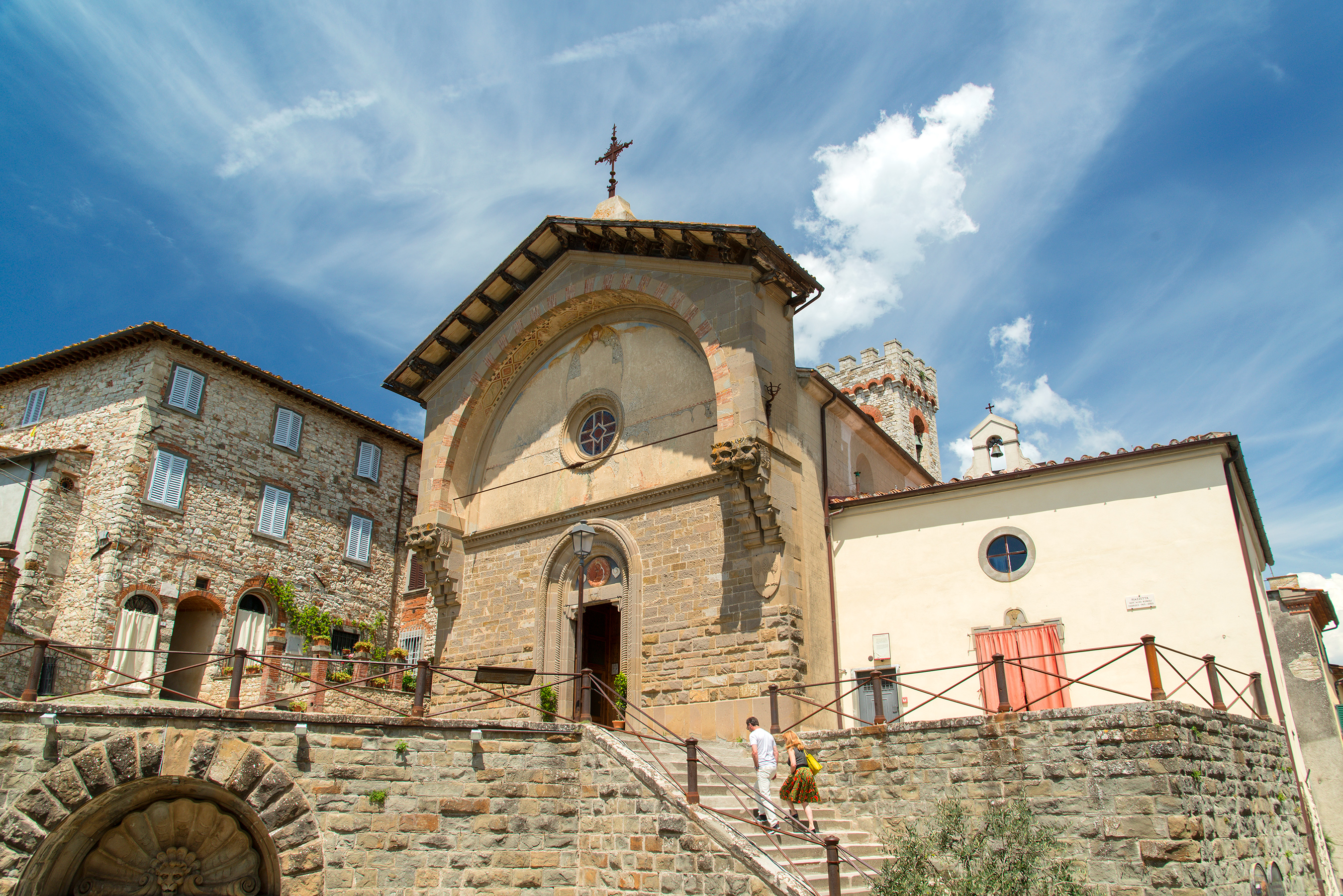 Propositura di San Niccola in Radda